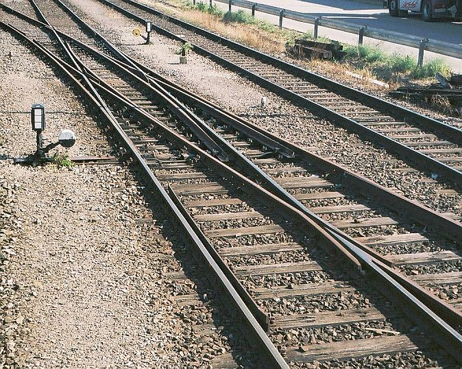 A double railroad switch my own photo